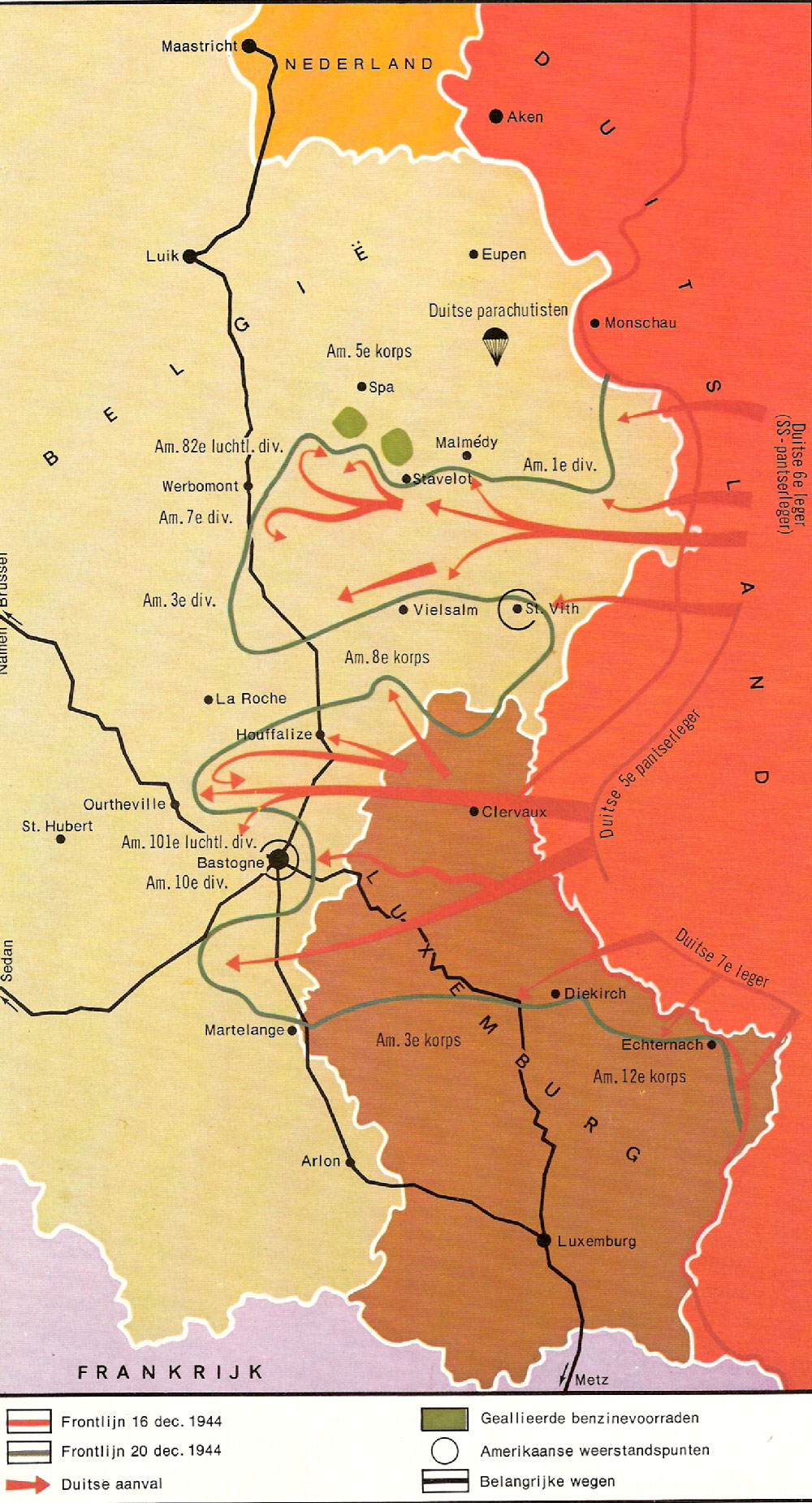 Battle of the Bulge